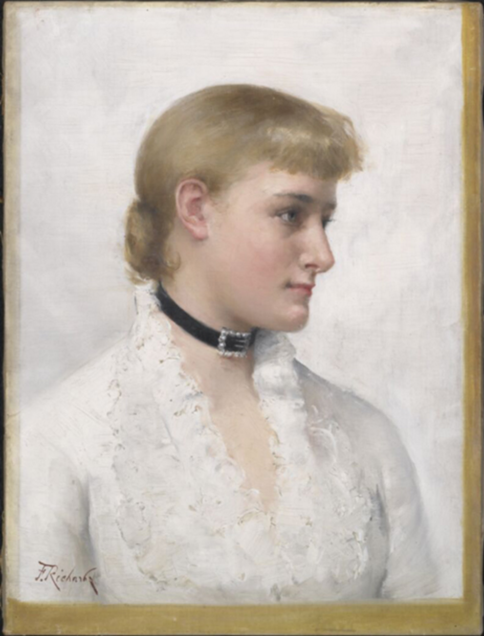 Portrait of an unidentified woman by Frances Richards (Canadian artist). Oil on canvas, 40.7 x 30.6 cm